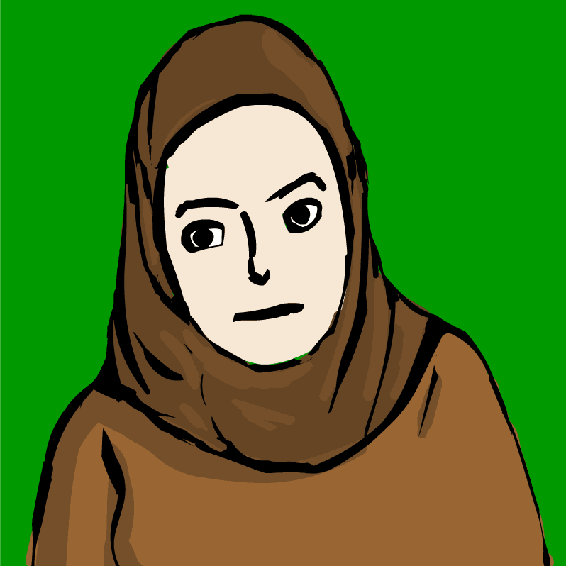 A woman wearing a hijab.